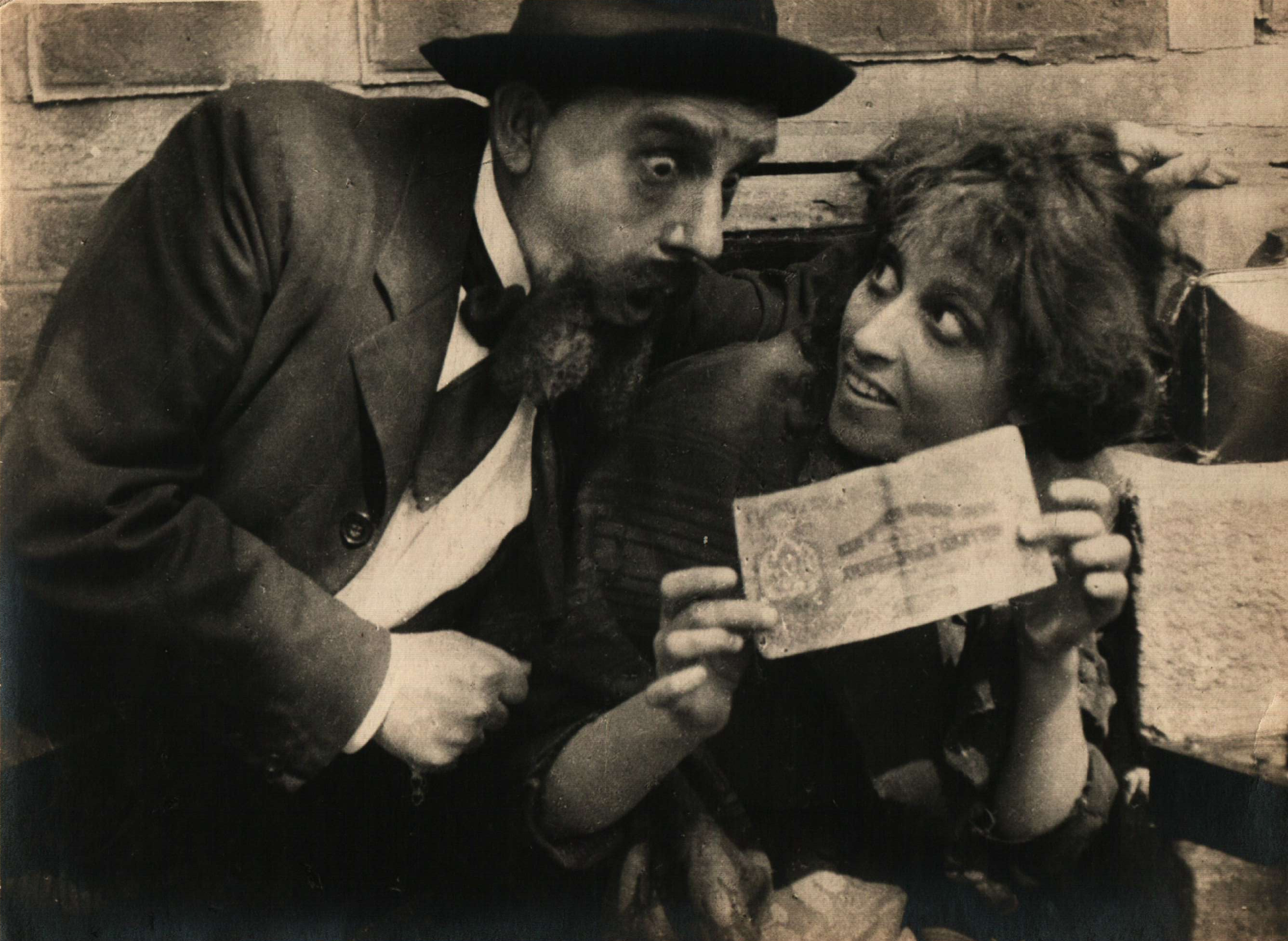 Bulgarian film Dyavolat v Sofia, 1921.